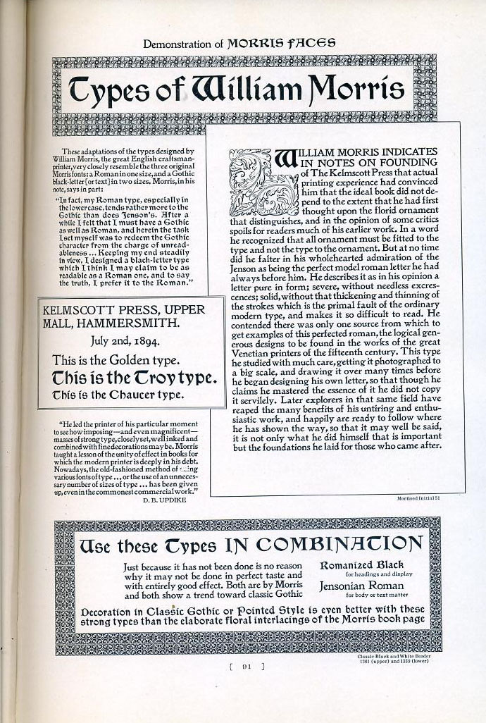 From